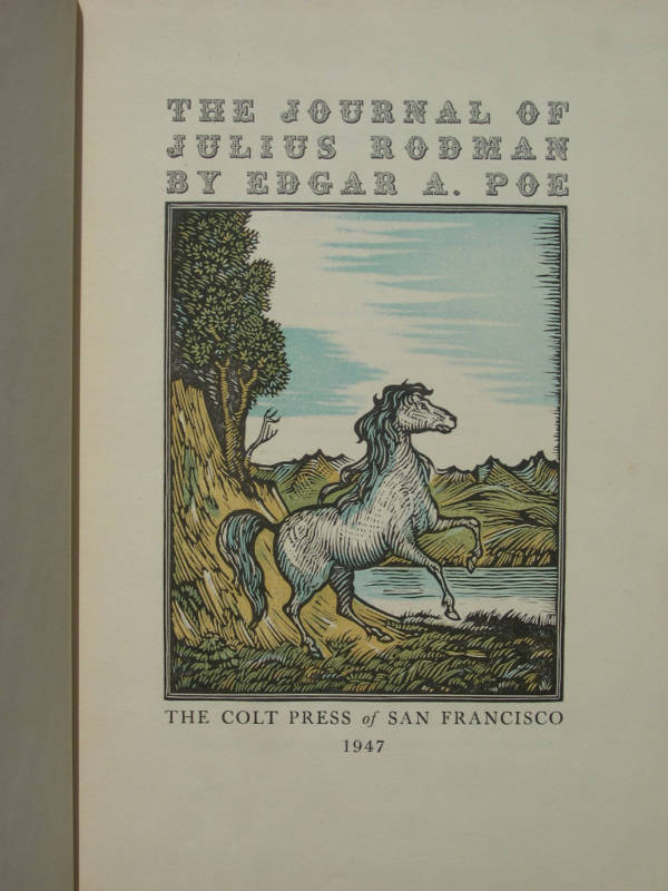 1947 reprint of public domain work The Journal of Julius Rodman by Edgar Allan Poe, published by Colt, San Francisco. The title page is shown.